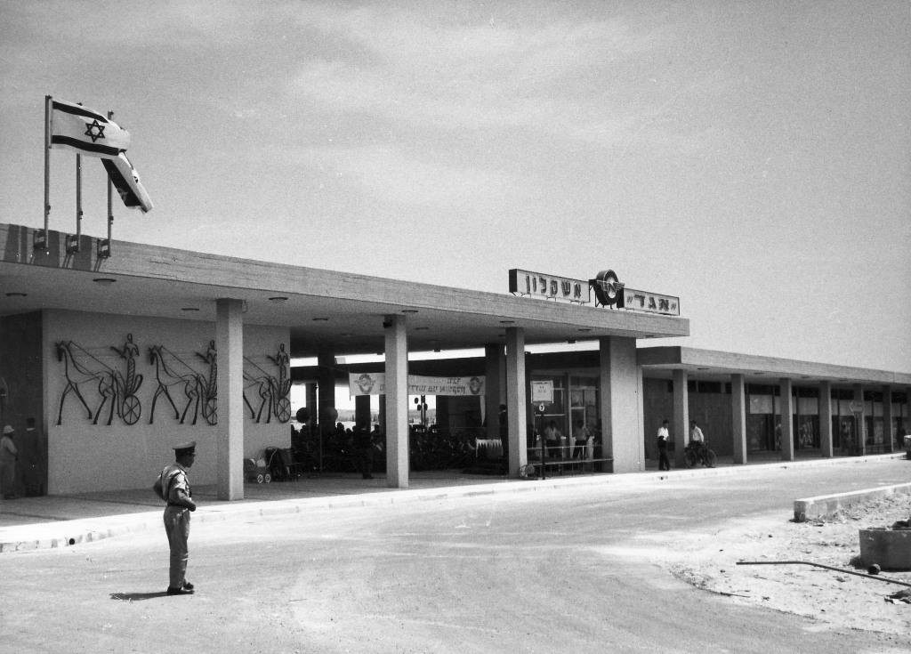 Ashkelon Central Bus Station as cuptured at its opening, 1965. Source: Egged historic photo archive